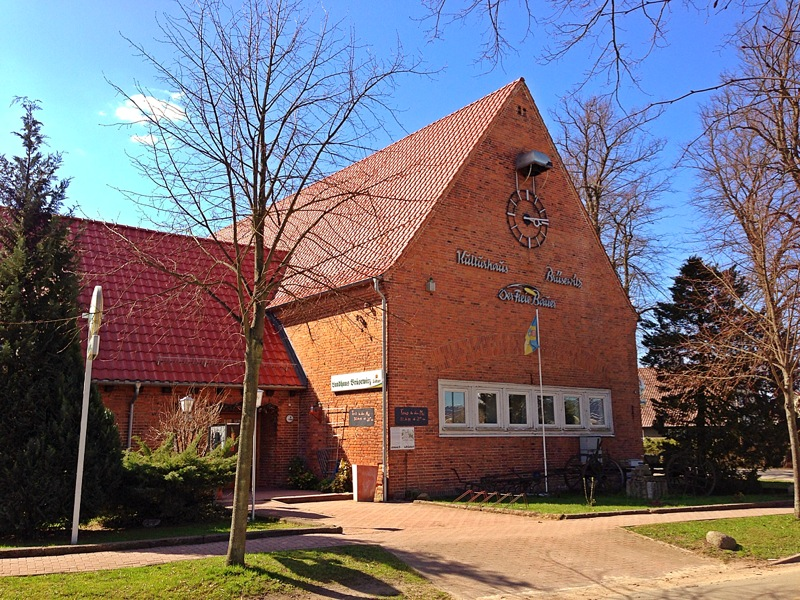 House of culture in Brüsewitz, distrct Nordwestmecklenburg, Mecklenburg-Vorpommern, Deutschland